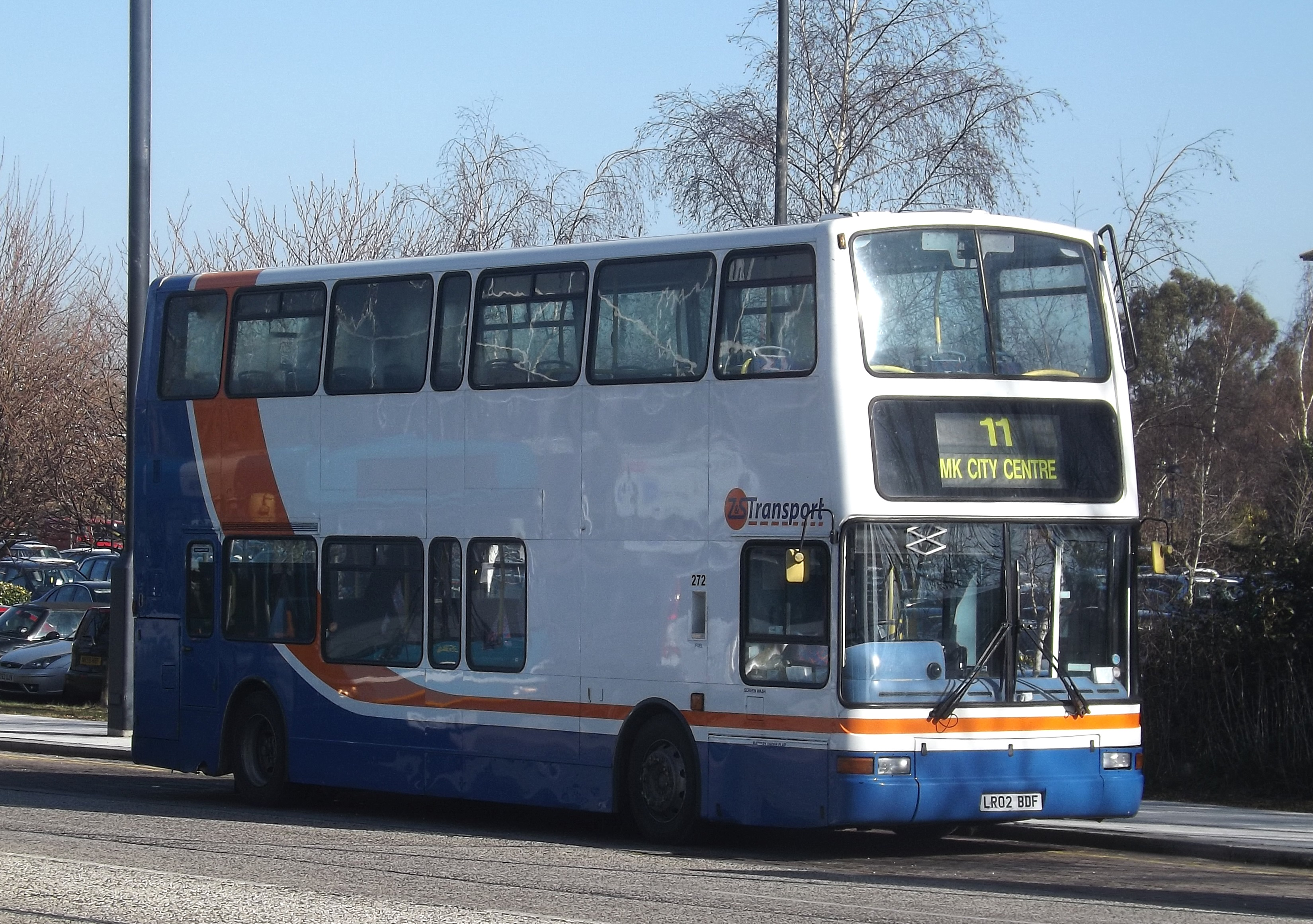 A Z&S Transport bus on route 11 in Milton Keynes, Buckinghamshire. The bus is a Dennis Trident 2, fleet number 272.